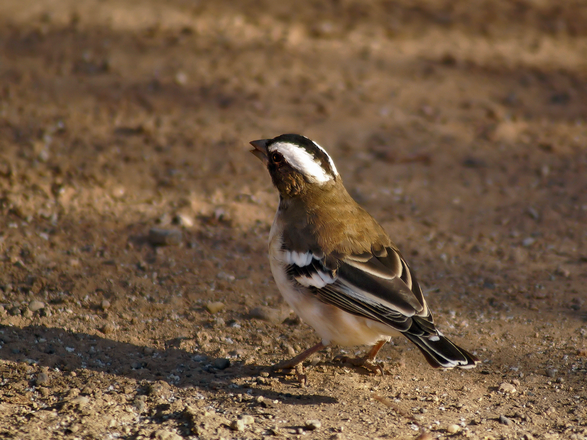 A female Whitebrowed sparrow-weaver at Opuwo, Kunene Region, Namibia. The sex is deduced from the bill colour, which is sexually dimorphic in the particular race.